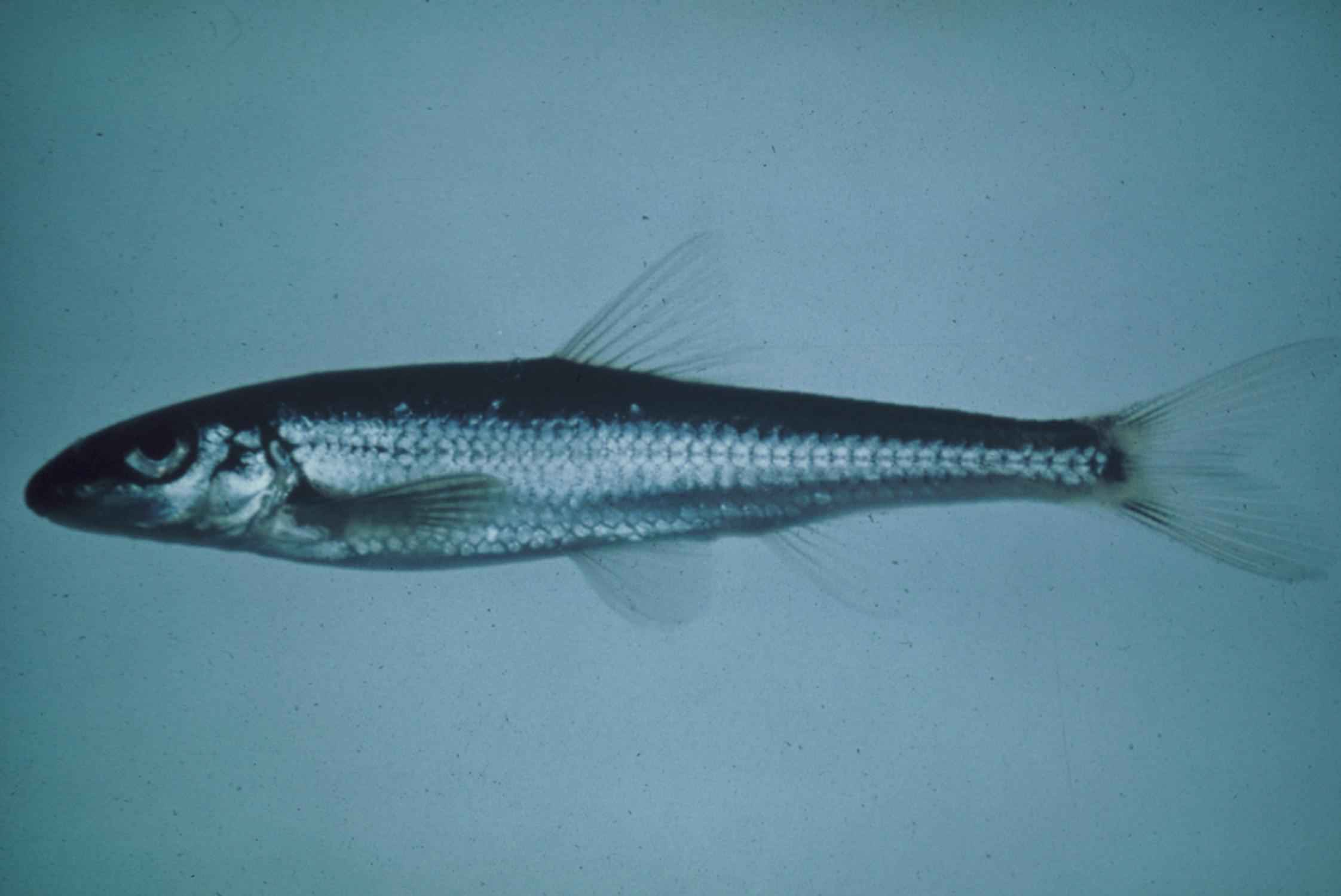 Image title: Slender chub fish erimystax cahni Image from Public domain images website